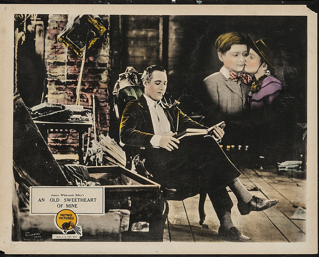 Lobby card for the American drama film An Old Sweetheart of Mine (1923).